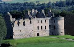 A photograph of Balvenie Castle